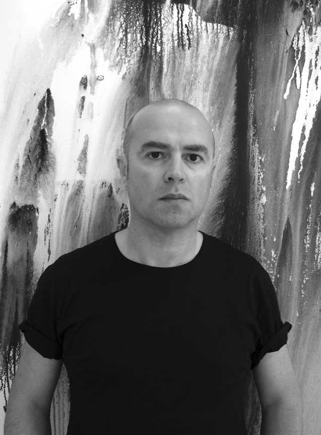 Daniele Cudini in his studio